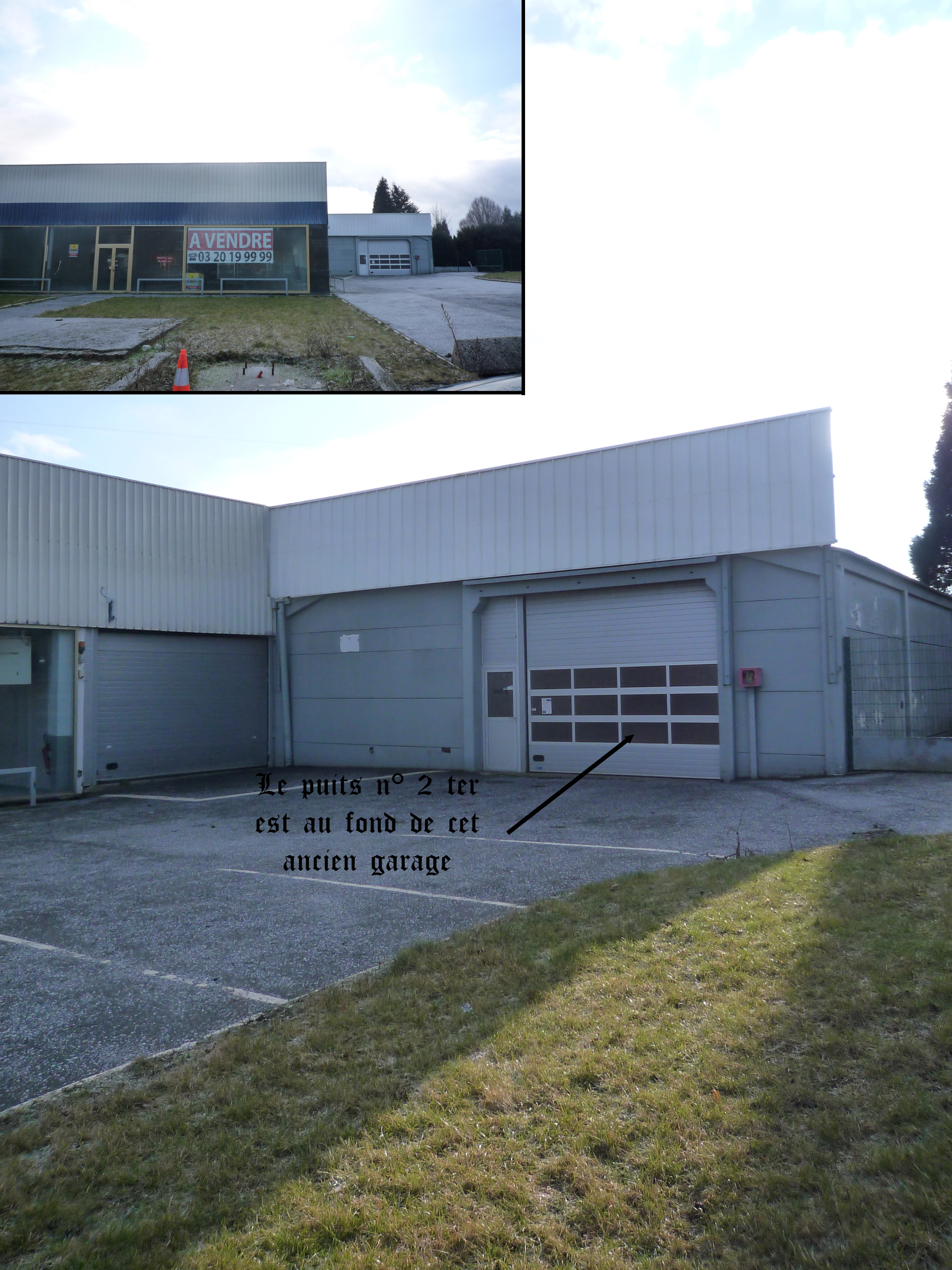 Pit n° 2 ter, Compagnie des mines de Lens, Loison-sous-Lens, Pas-de-Calais, Nord-Pas-de-Calais, France.